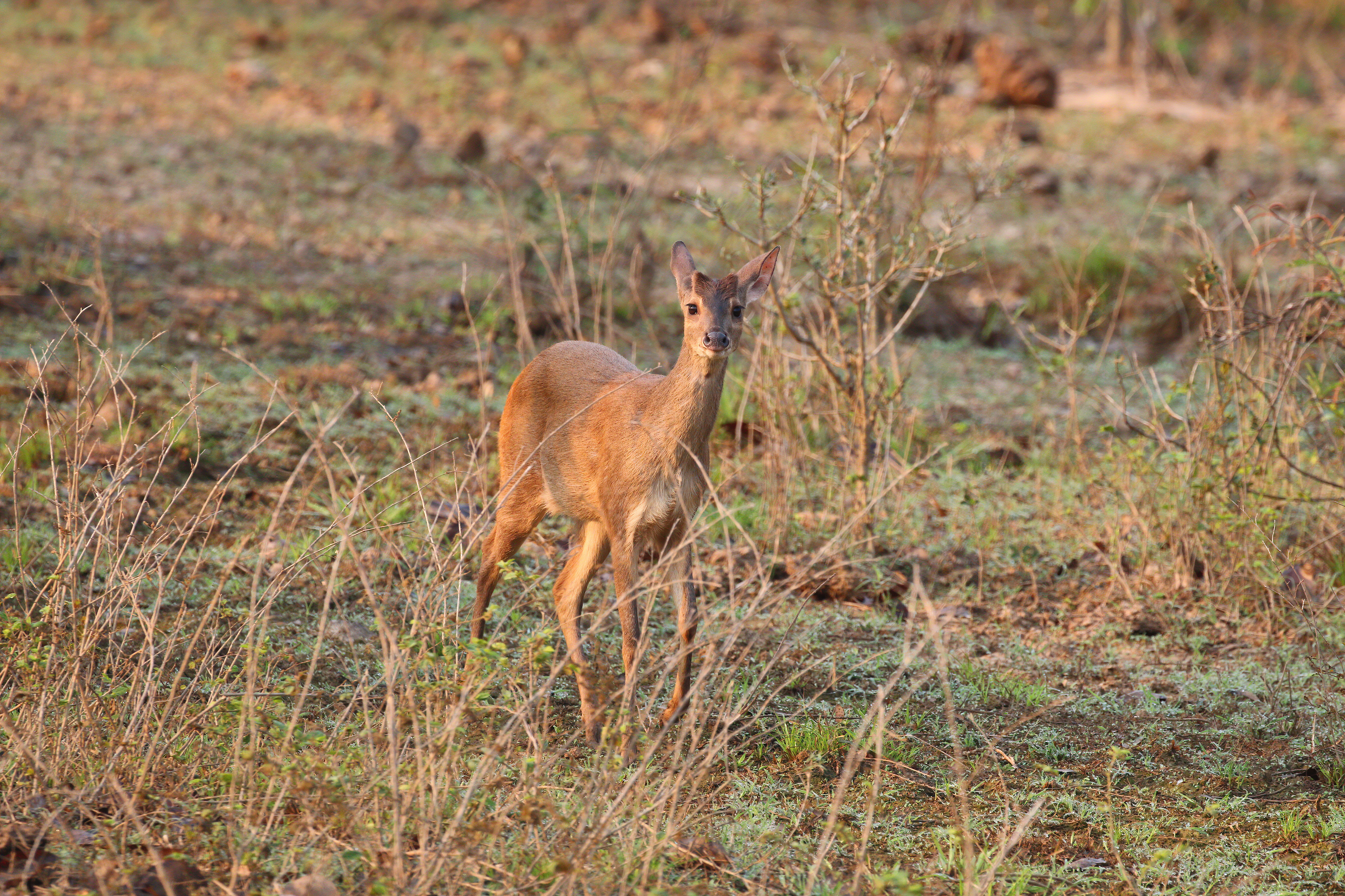 Grey brocket (Mazama gouazoubira) young female, the Pantanal, Brazil